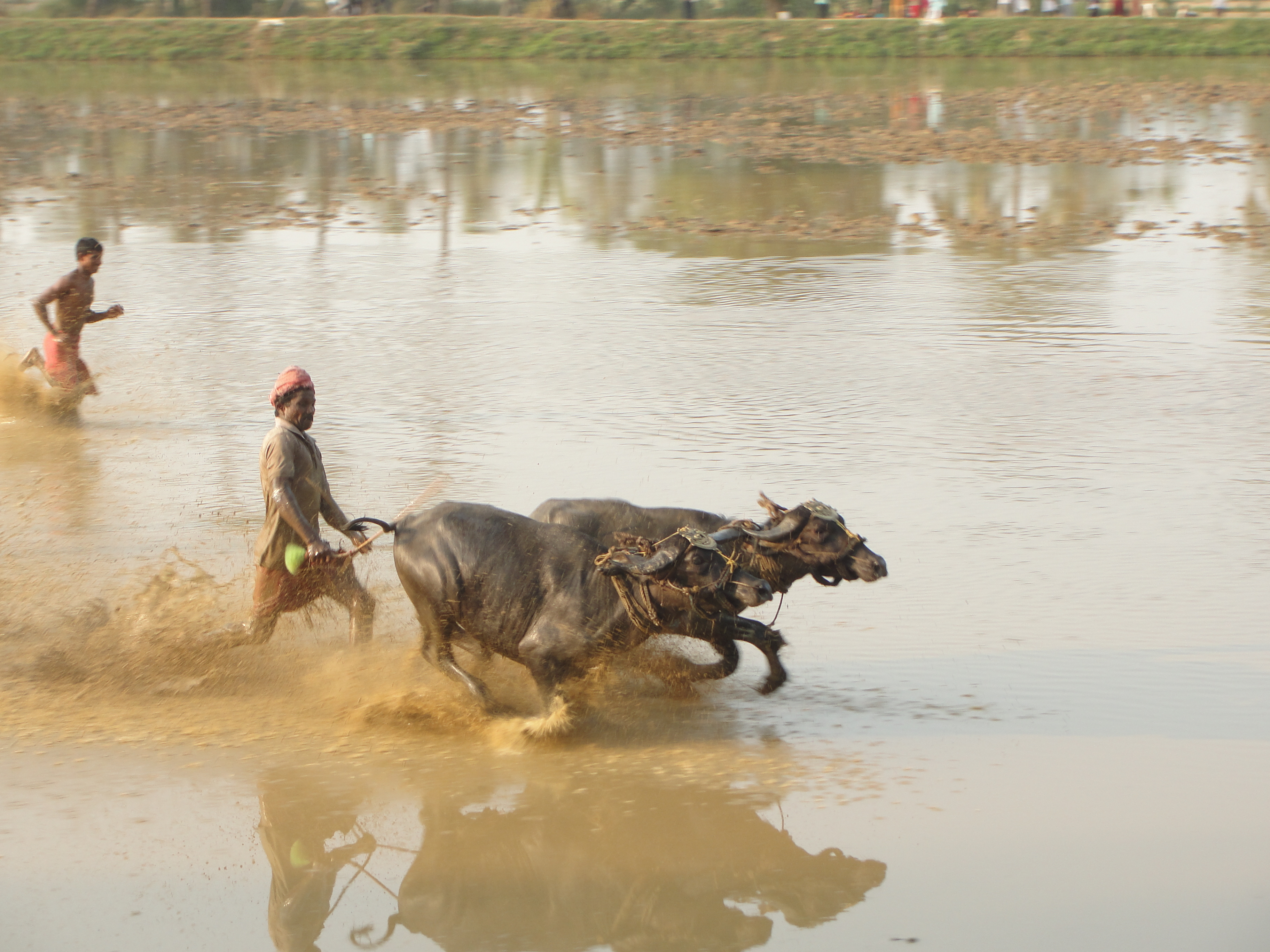 Kambala, he-buffalo race at Vandar village, Udupi Dist., Karnataka, India, held during every winter across coastal Karnataka in about 50 villages.